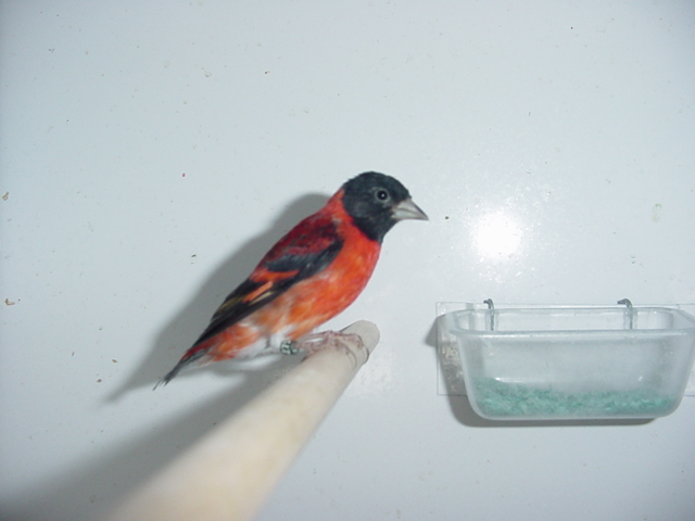 Macho Description: Black headed red siskin male (Carduelis cucullata) Creator: Luis Carocci. Date: 30 de noviembre de 2007 (30-11-2007) Place: Canada